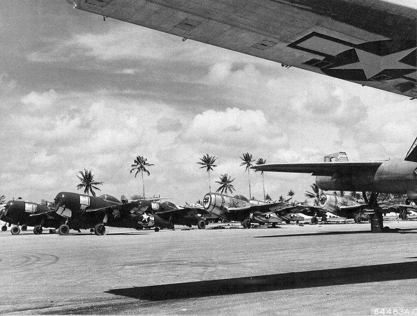 Newly arrived USAAF Republic P-47 Thunderbolts lined up in a maintenance area at Agana Airfield, Guam, Marianas Islands on 28 March 1945.